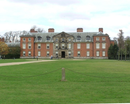 Dunham Massey Hall